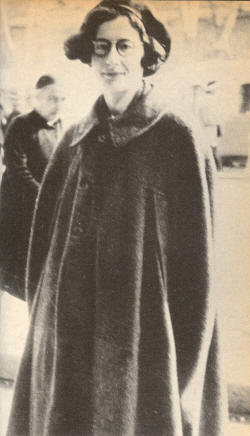 Simone Weil (1909–1943) – a French philosopher, Christian mystic and political activist of Jewish origin. In Marseille, France.